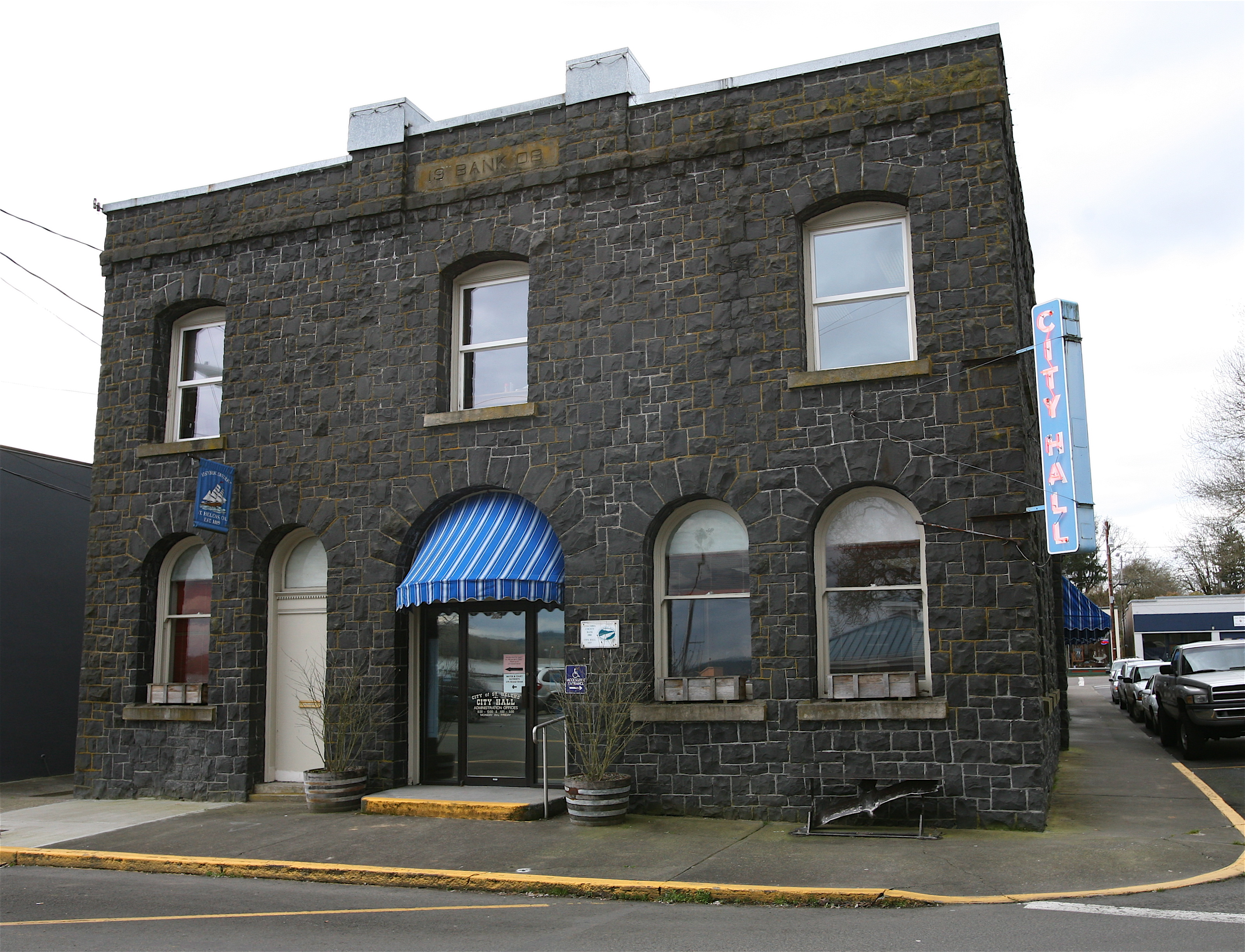 St. Helens, Oregon City Hall.